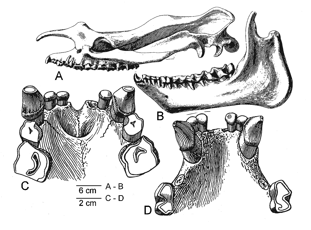 Skull and mandibula from Duchesneodus, first printed in: Olof August Peterson: New species of the genus Teleodus from the Upper Uinta of northeastern Utah. Annals of the Carnegie Museum 20, 1931, p. 307–312, reprinted in: Spencer George Lucas and Robert M. Schoch: Taxonomy of Duchesneodus (Brontotheriidae) from the late Eocene of North America. In: Donald R. Prothero und Robert M. Schoch (Hrsg.): The evolution of Perissodactyls. New York and Oxford, 1989, p. 490–503 (493)